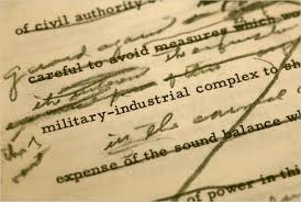 Closeup of page from a draft of Eisenhower's farewell address, showing the phrase the address made famous: "military-industrial complex"; the speech was delivered on January 17, 1961.